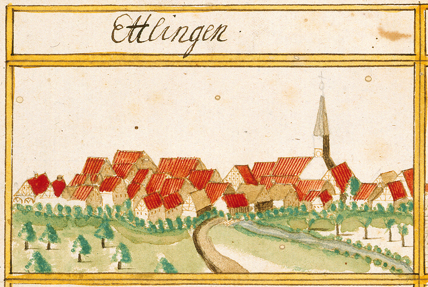 View of Ötlingen/Teck, Kirchheim unter Teck, from the forest register books created by Andreas Kieser